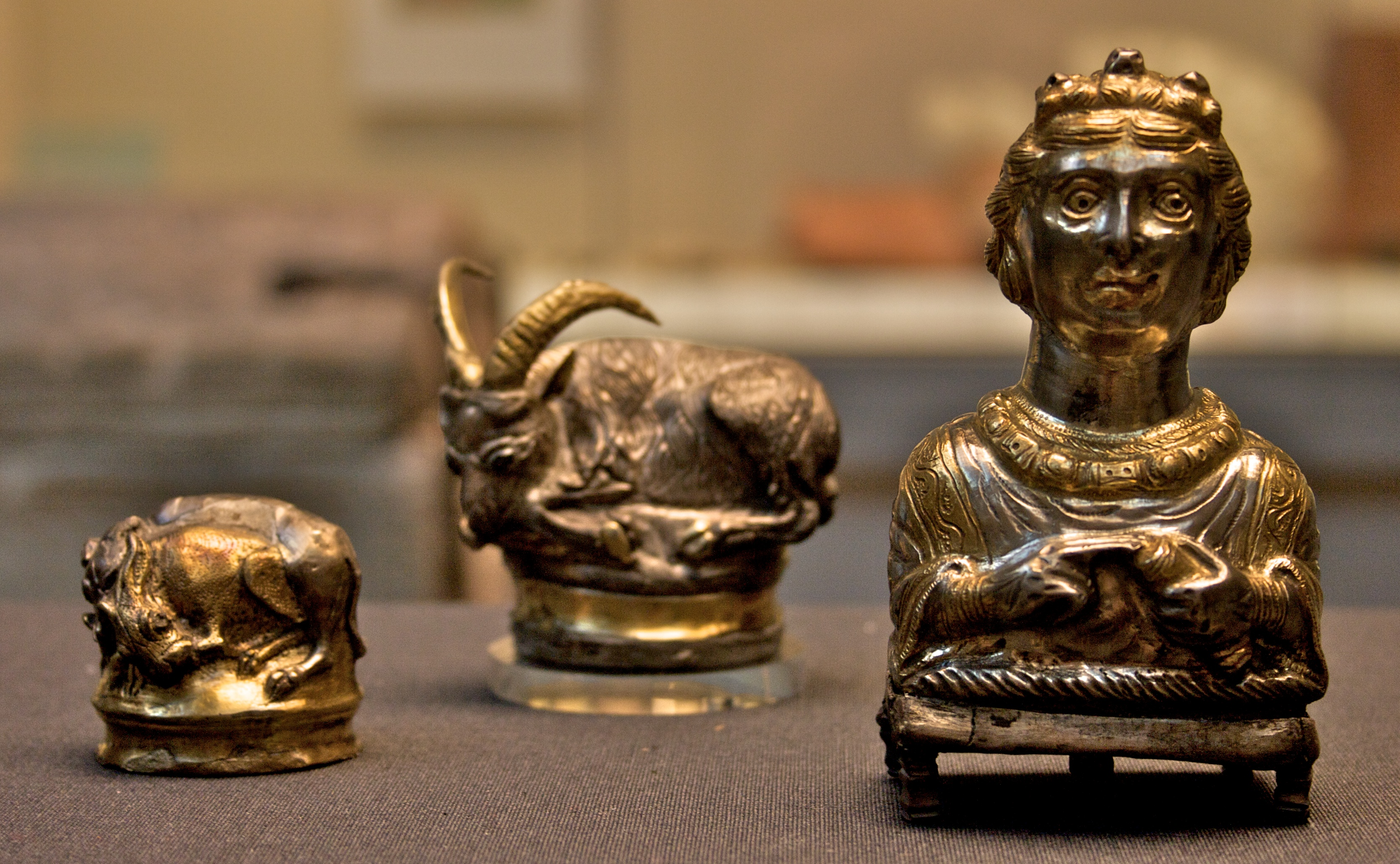 Hoxne Hoard. Three pepper pots including the Hoxne "Empress" pepper pot.